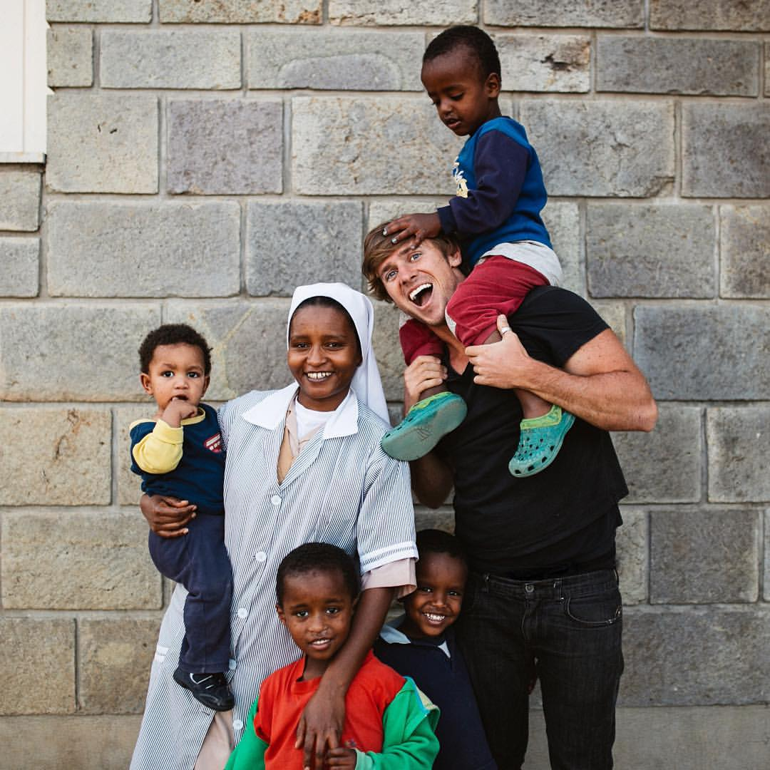 Justin Mayo visits an African Orphanage and tries to find ways to bring the kids needed care after talking with some of the nuns that watch over the kids.